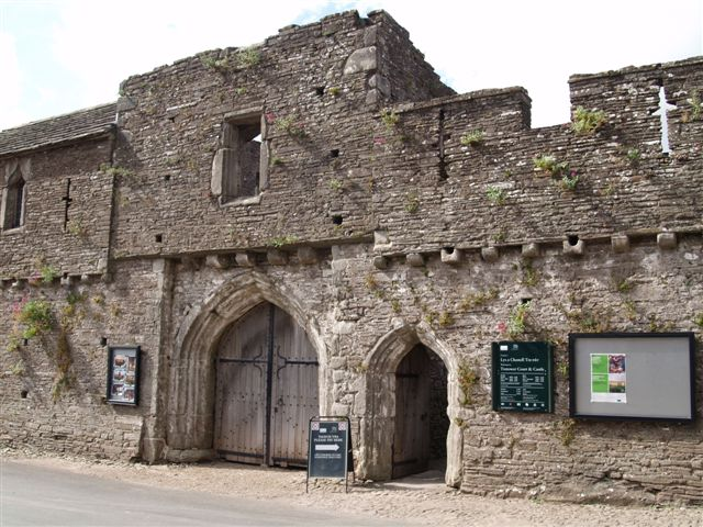 Tretower Court